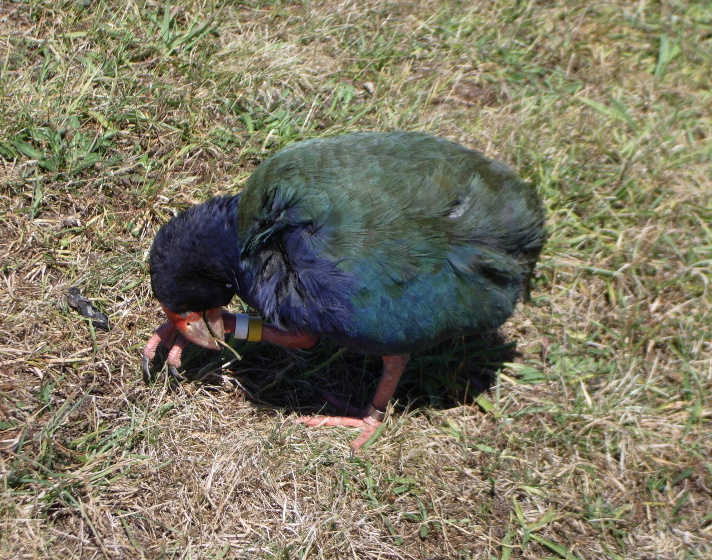 A takahe feeding on a grass stalk Location: Tiritiri Matangi Island